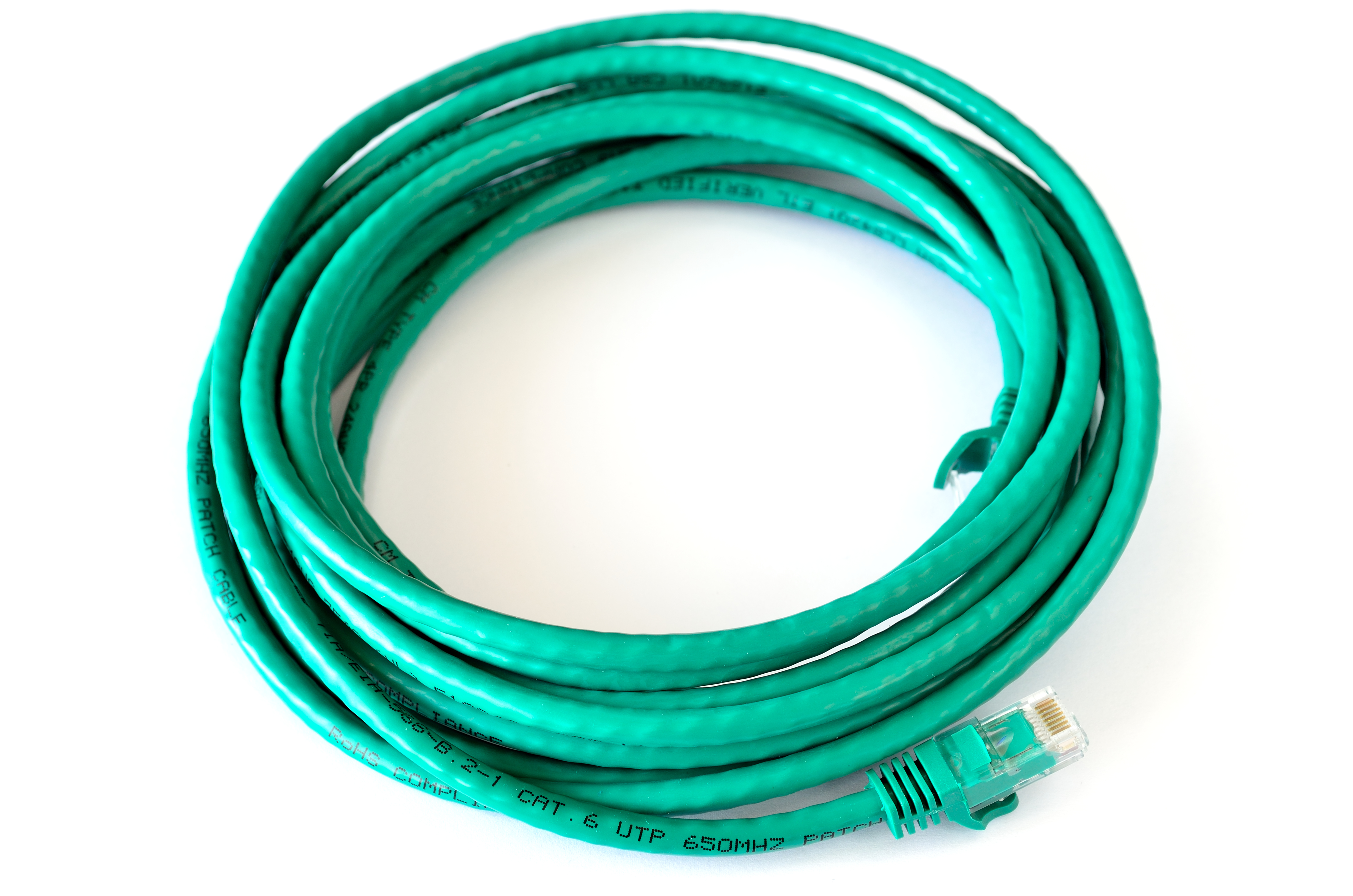 A green ethernet cable